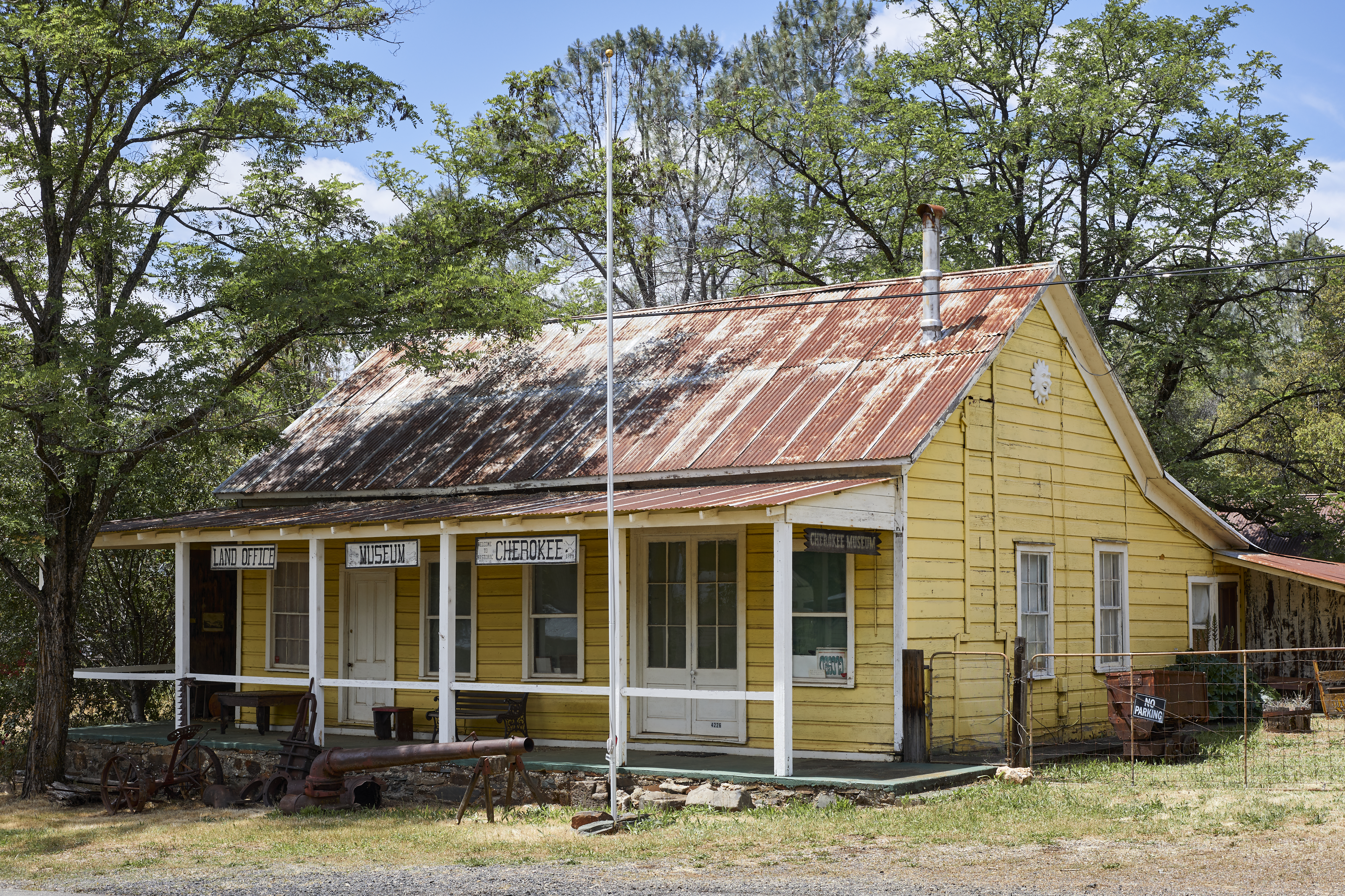 The museum of the historic mining town of Cherokee in Butte County, California, on May 19, 2020. The USGS identifies Cherokee Flat and Drytown as historic variant names for the community. The town is located on Cherokee Road off State Route 70.